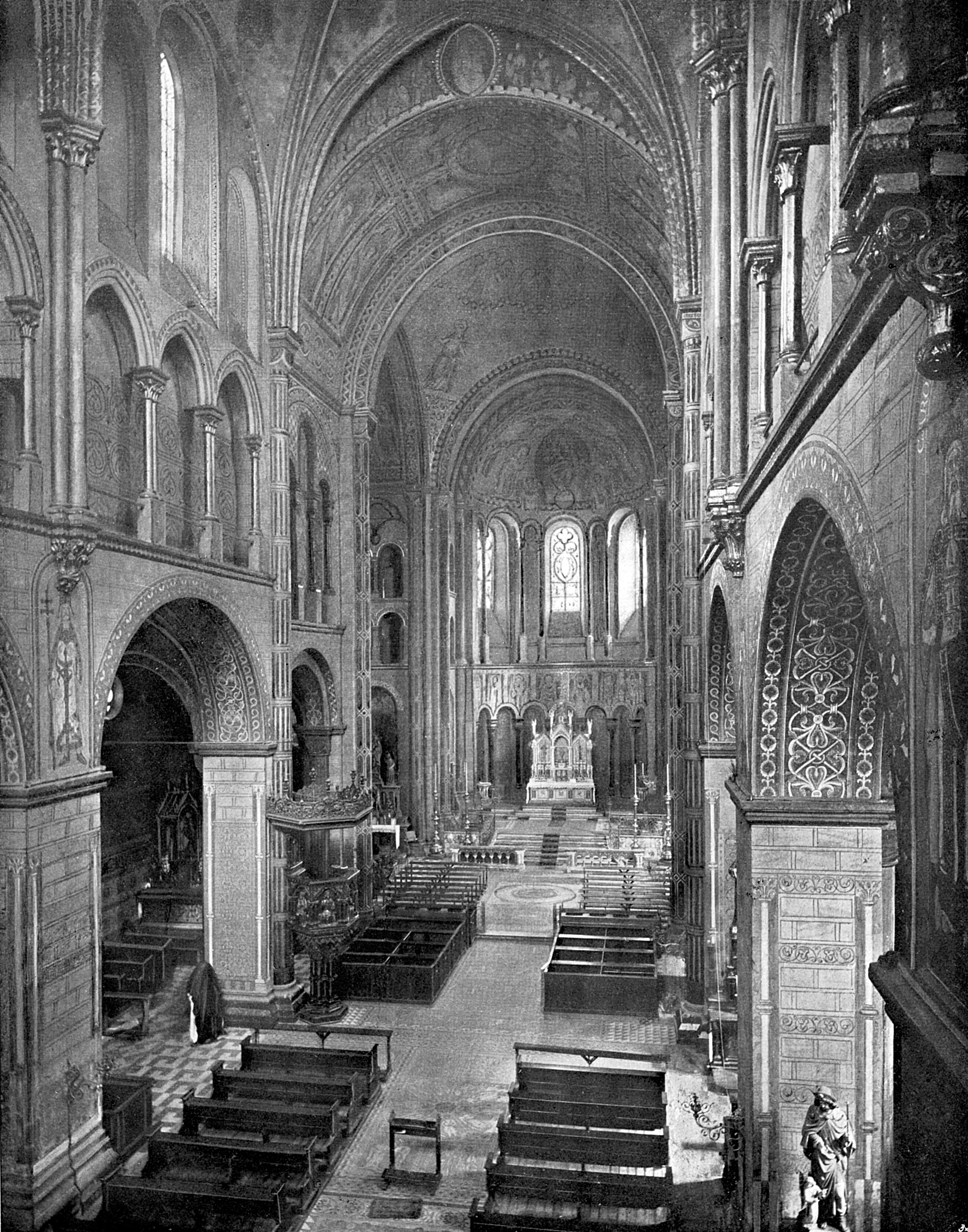 View through the main nave to the eastern apse of Groß St. Martin, Cologne